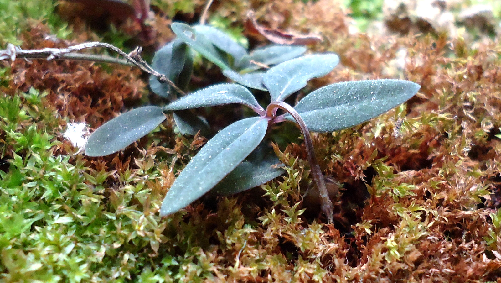 "Spigelia genuflexa Popovkin & Struwe sp. nov. Geocarpy, burying fruit in soil (the peanut style), or ground cover (as is the case here and called 'depositor type' by Hylander [1929]), observed for the first time in Loganiaceae."